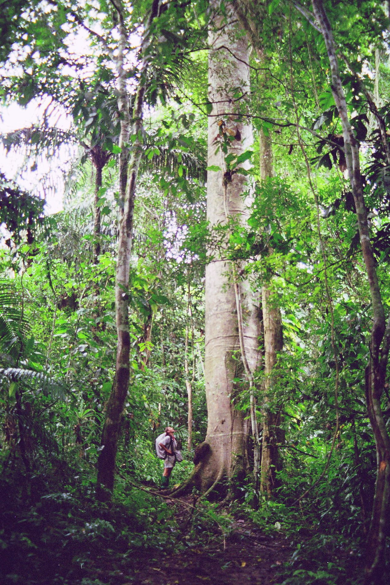 A Ceiba tree makes Darien Gap crosser Gustavo Ross look tiny in comparison. Ceibas are considered sacred trees by ancient Mayan cultures.